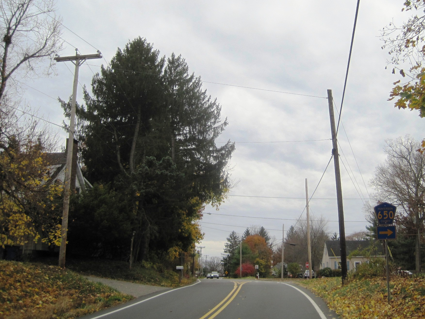 Photo of Voorhees Corners, New Jersey, an unincorporated community within Raritan Township. Photo taken on southbound Old York Road (County Route 613) at Voorhees Corner Road (CR 650).